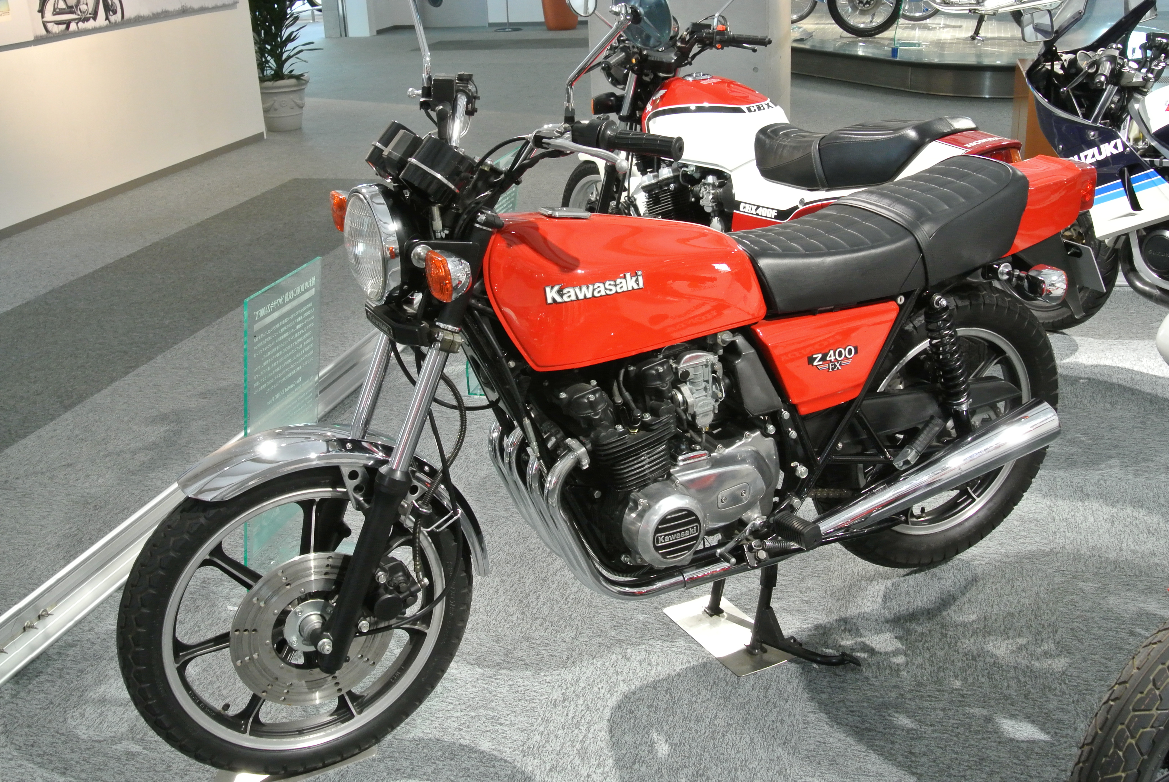 Kawasaki Z400FX in the Honda Collection Hall.